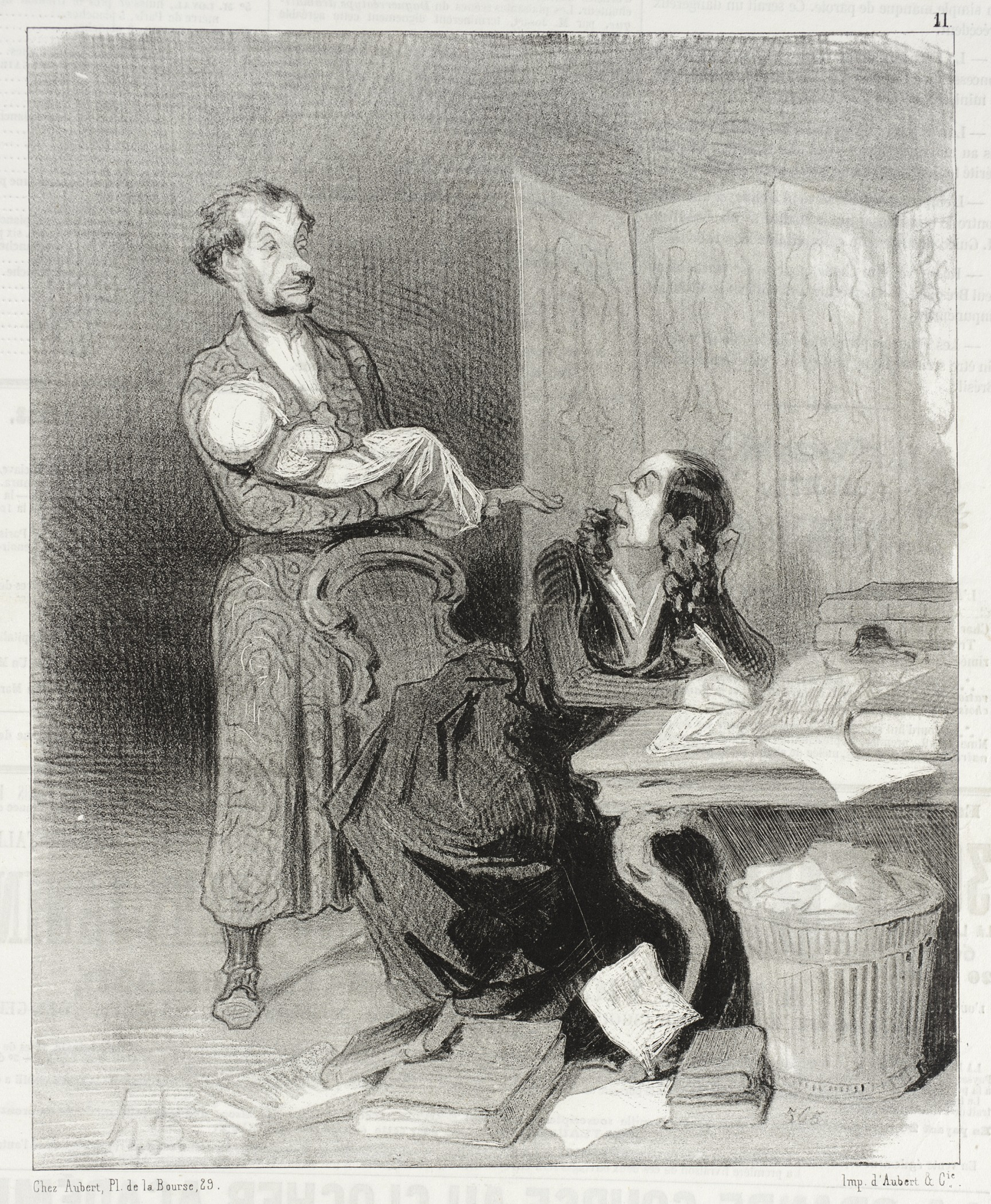 France, 1844 Series: Les Bas-blues, no. 11 Periodical: Le Charivari, 2 March 1844 Prints; lithographs Lithograph Sheet: 9 1/4 x 7 1/2 in. (23.5 x 19.05 cm) Gift of Mrs. Florence Victor from The David and Florence Victor Collection (M.91.82.171) Prints and Drawings